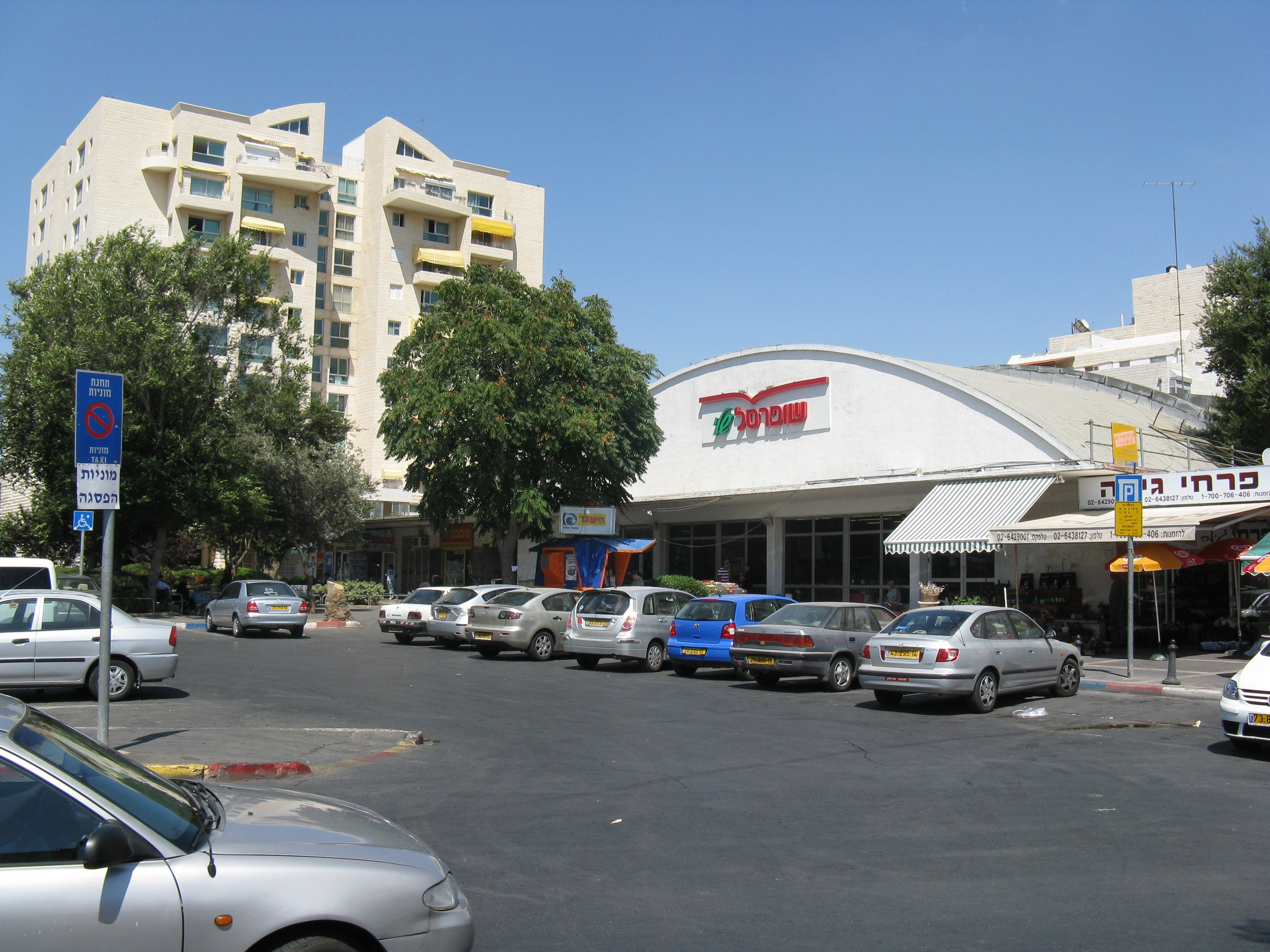 The Kiryat HaYovel "SuperSol" supermarket, Jerusalem, Israel